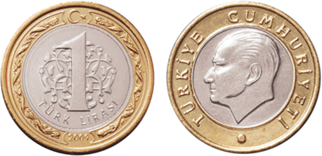 1 Lira coin